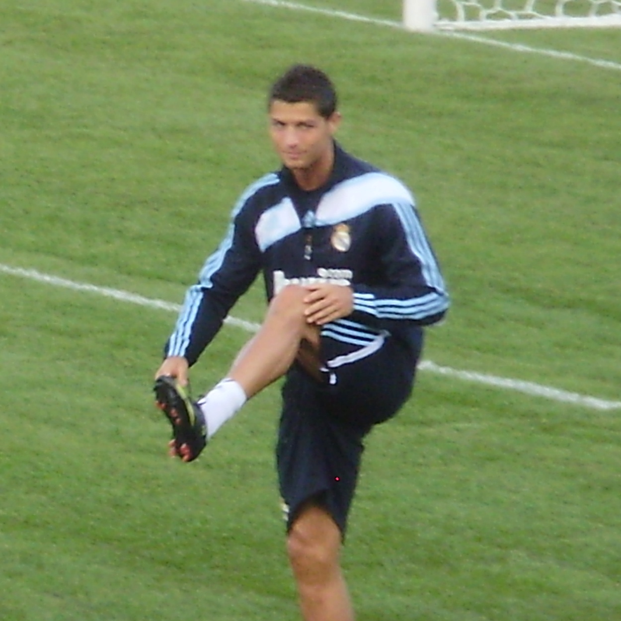 Real Madrid in Toronto Canada, Ronaldo